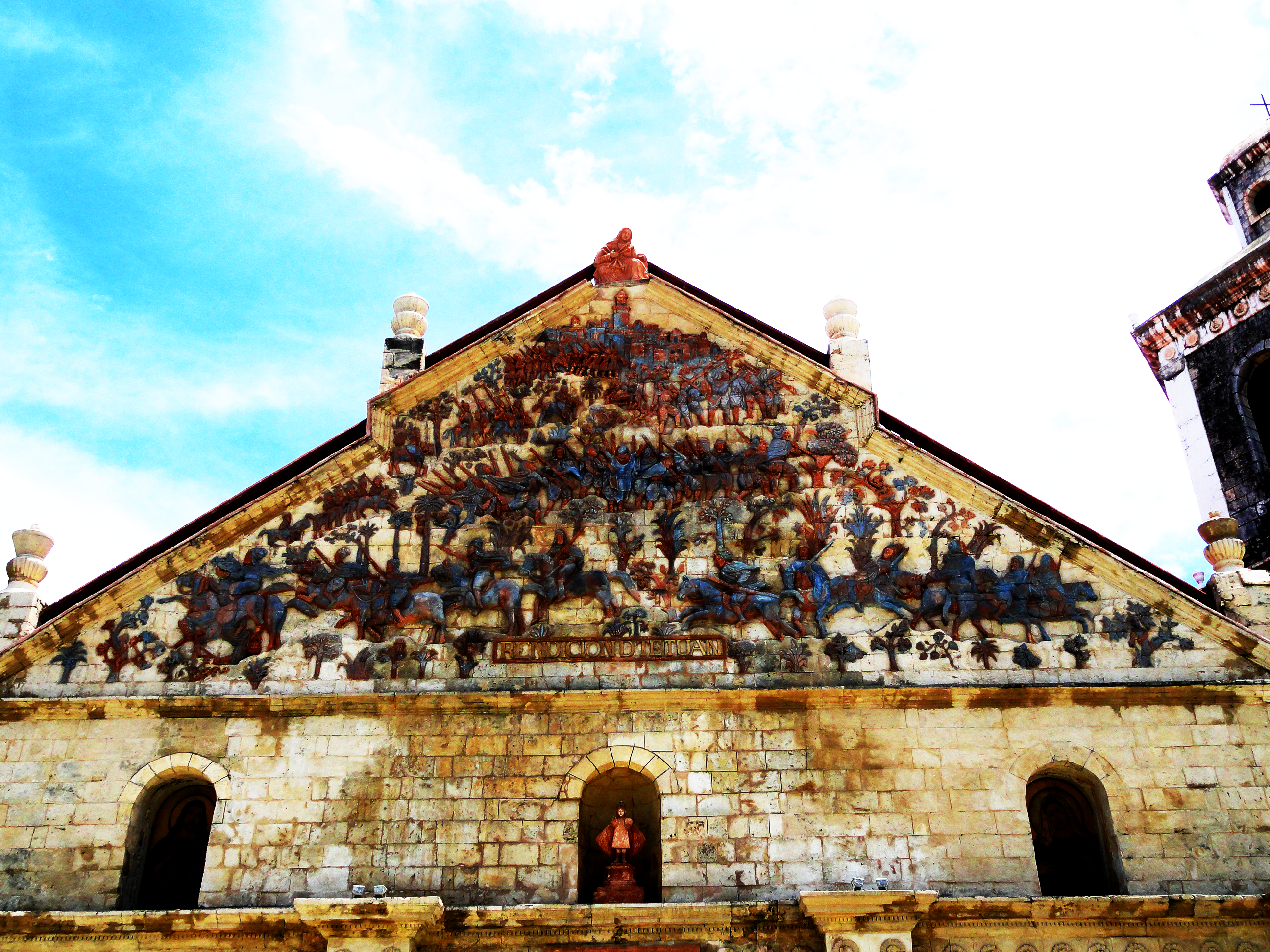 San Joaquin Church